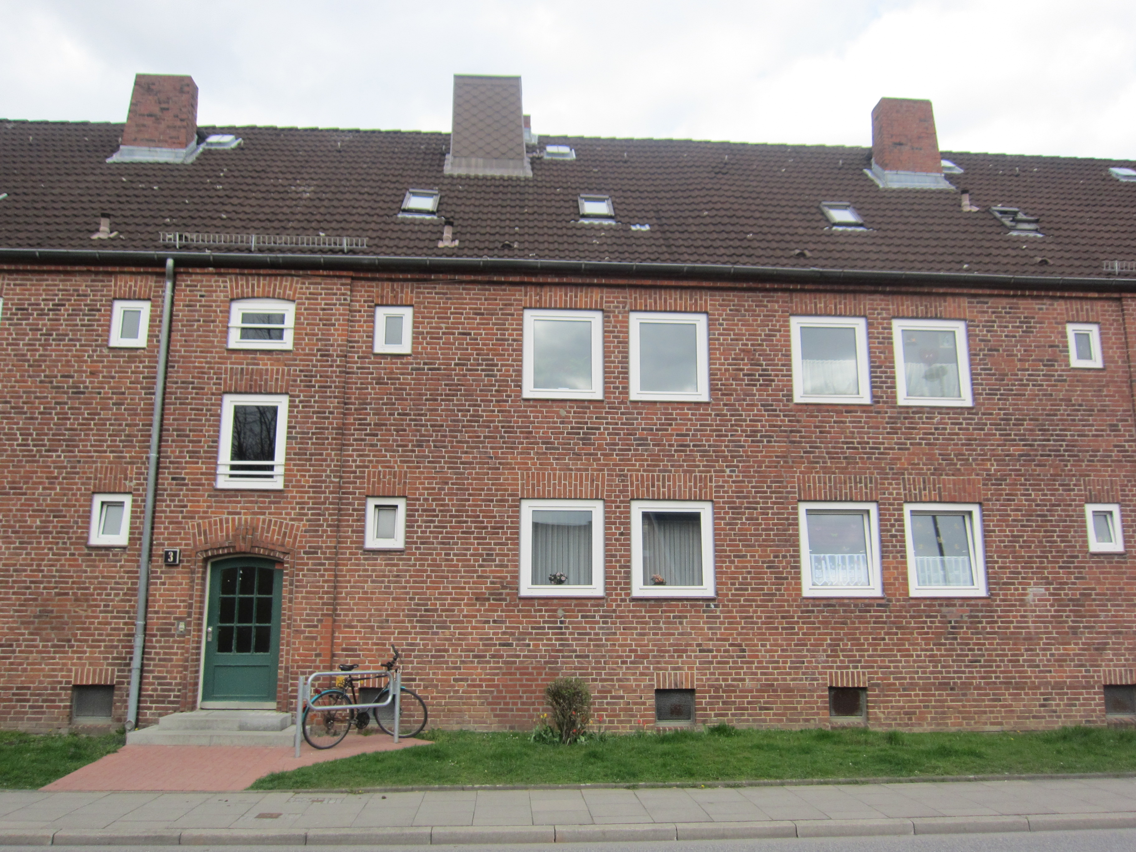 House "Franzensbader Straße 3" in Kiel-Elmschenhagen